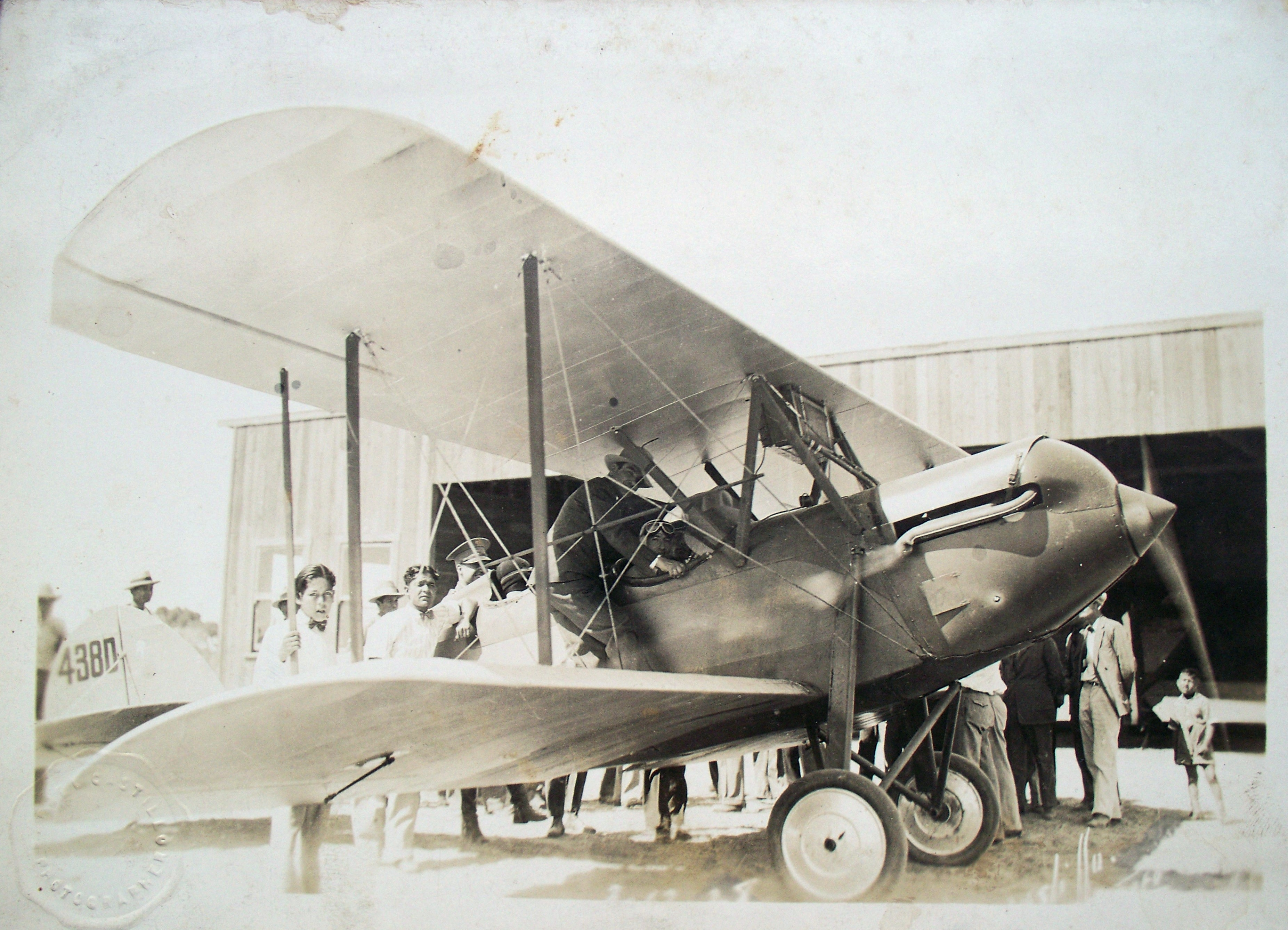 Mexican Air Force official, Luis Farell Cubillas, giving joy rides to friends. The airplane is a WACO model 10 and was a present from President Emilio Portes Gil to Farell, a member of the Jefatura del Estado Mayor Presidencial. Left of the rear cabin, on the ground, is Rafael Ponce de León talking to Farell. Mexico, c1929-1932.